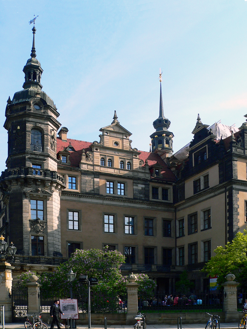 Dresden Castle